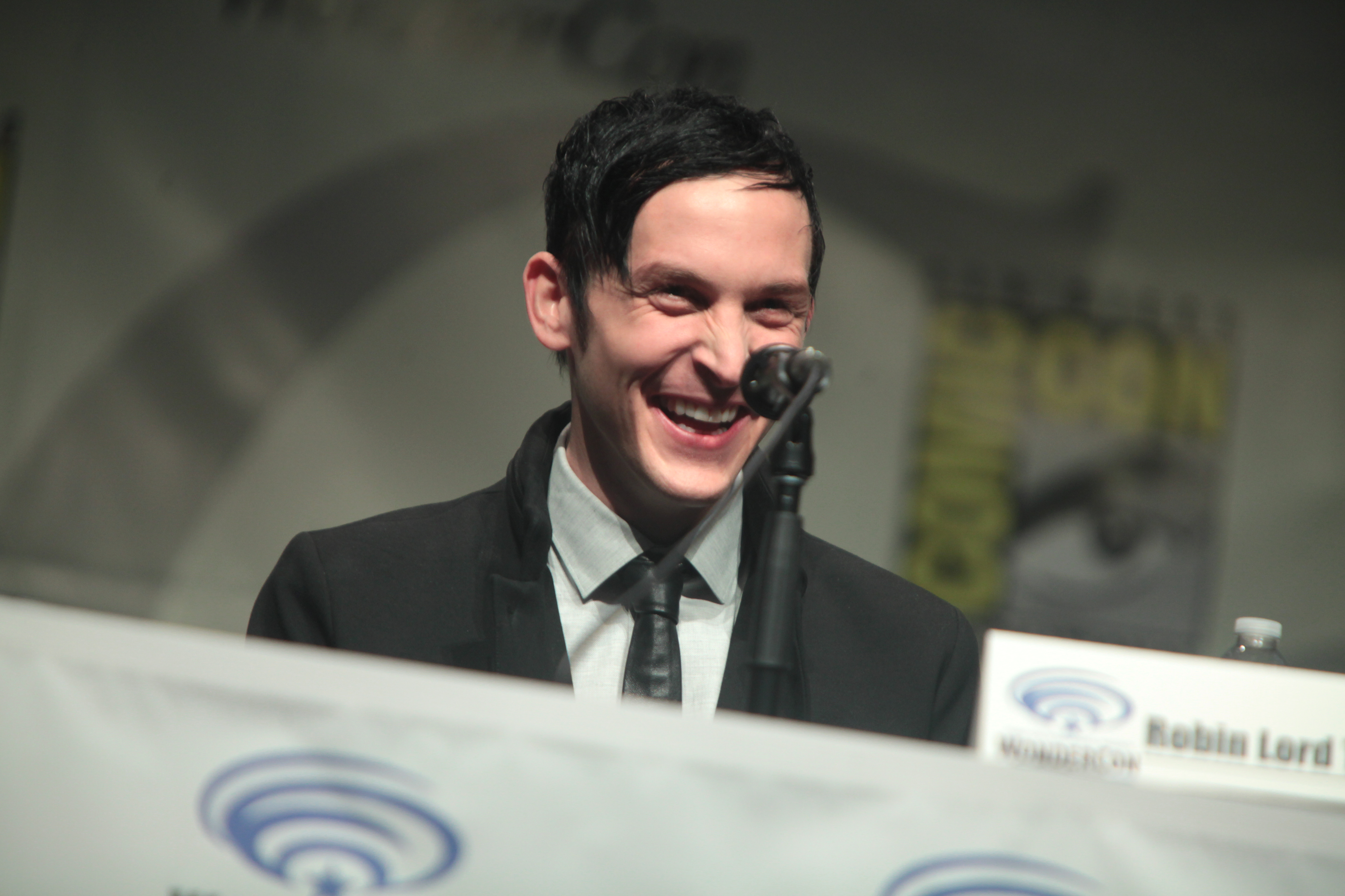 Robin Lord Taylor speaking at the 2015 Wondercon, for "Gotham", at the Anaheim Convention Center in Anaheim, California.